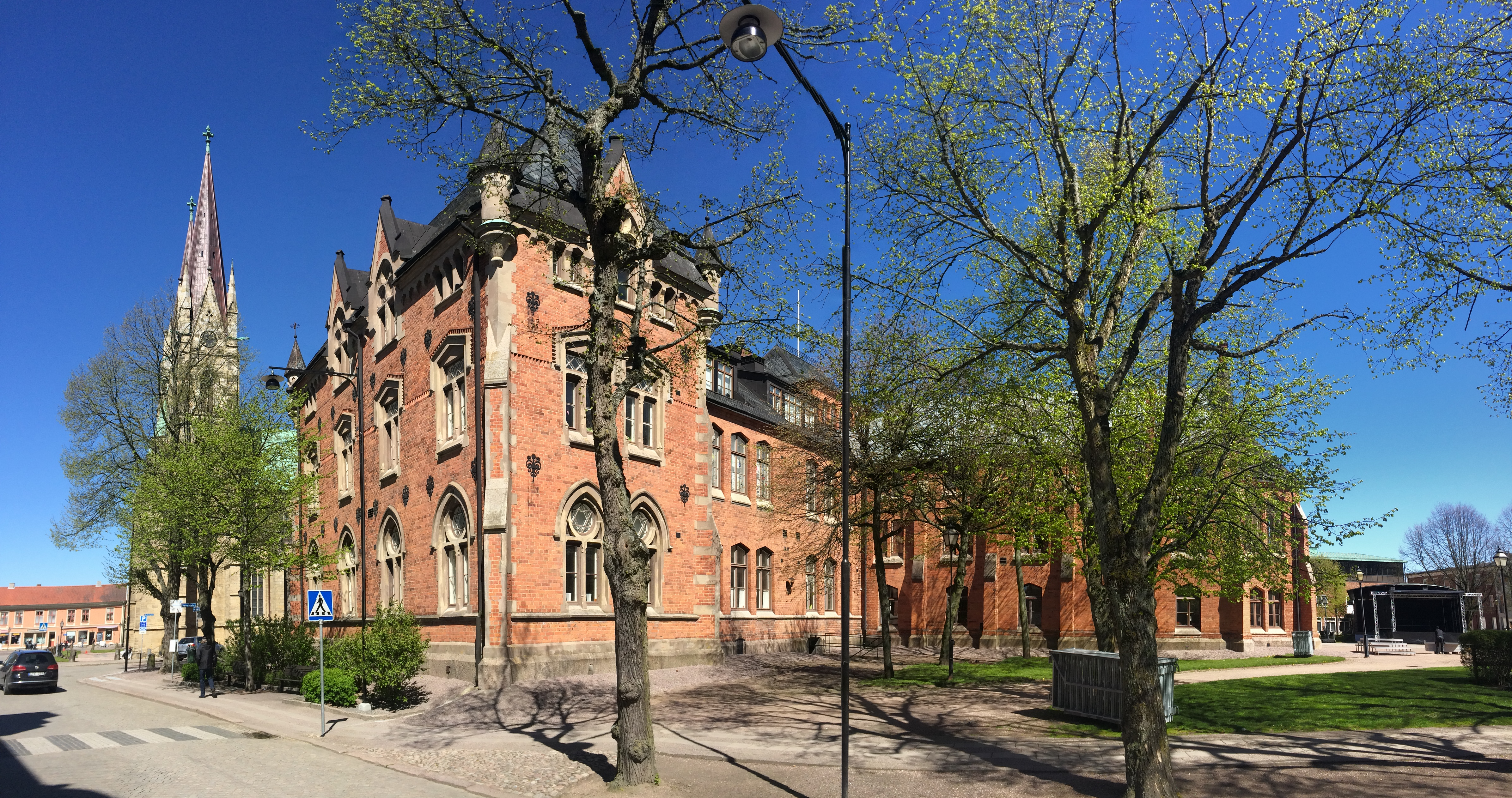 Djäkneskolan, a School in Skara, Central Sweden, opposite the Skara Cathedral (to the left in photo).